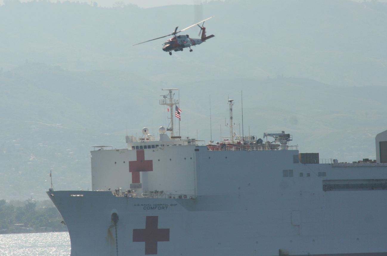 USNS Comfort begins operations in Haiti, Jan 20 2010.